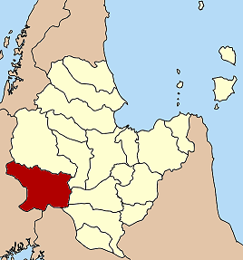 Map of the province Surat Thani, Thailand, highlighting Amphoe Phanom (geocode 8410).